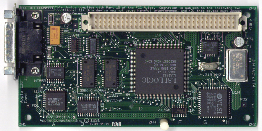 The PDS-based "Apple IIe Card" (Apple part #: 820-0444-A) for the Macintosh. Scanned by Mitchell Spector (myself).